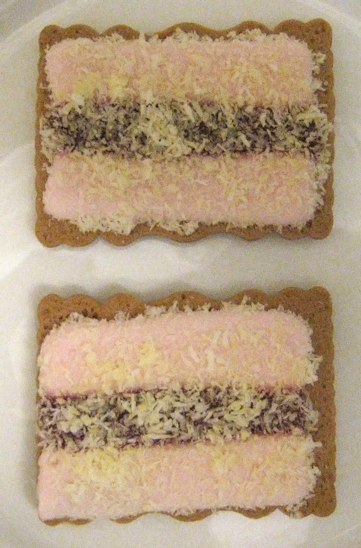 Two Iced Vo Vo biscuits on a plate